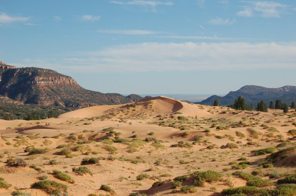 A portion of the Coral Pink Sand Dunes State Park in southwestern Utah.